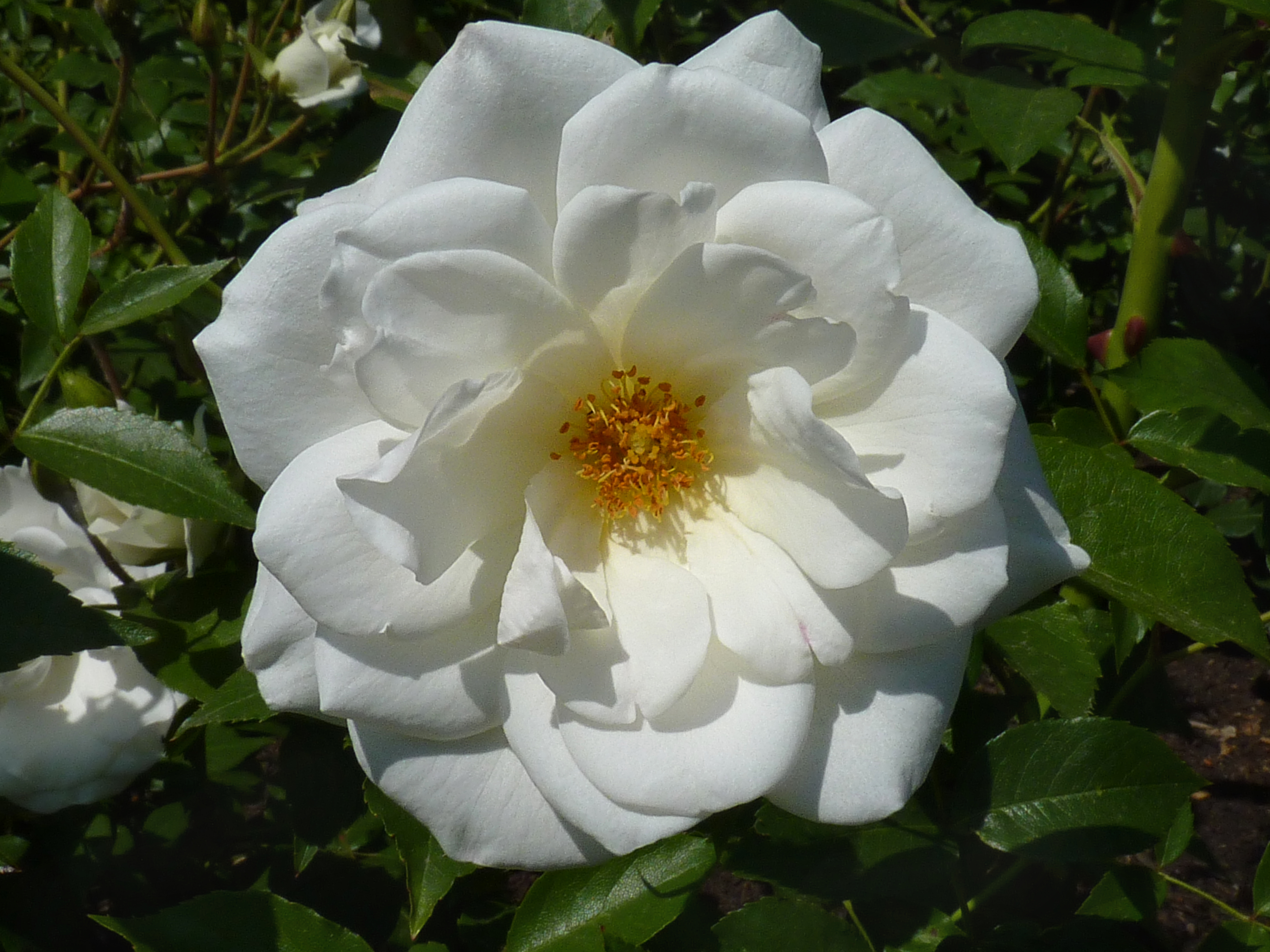 Rosa 'Maria Mathilda' (Louis Lens, 1980), in the international rose garden of Kortrijk, Belgium.